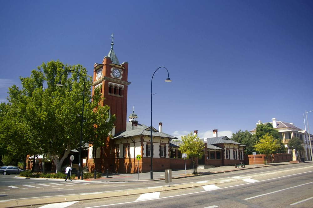 Wagga Wagga Court House was designed by an Government architect, Walter Vernon. The court house was constructed by Charles Hardy and Thomas Hodson in 1901-1903.